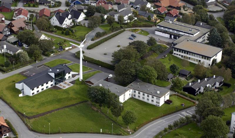 Jæren folkehøgskule